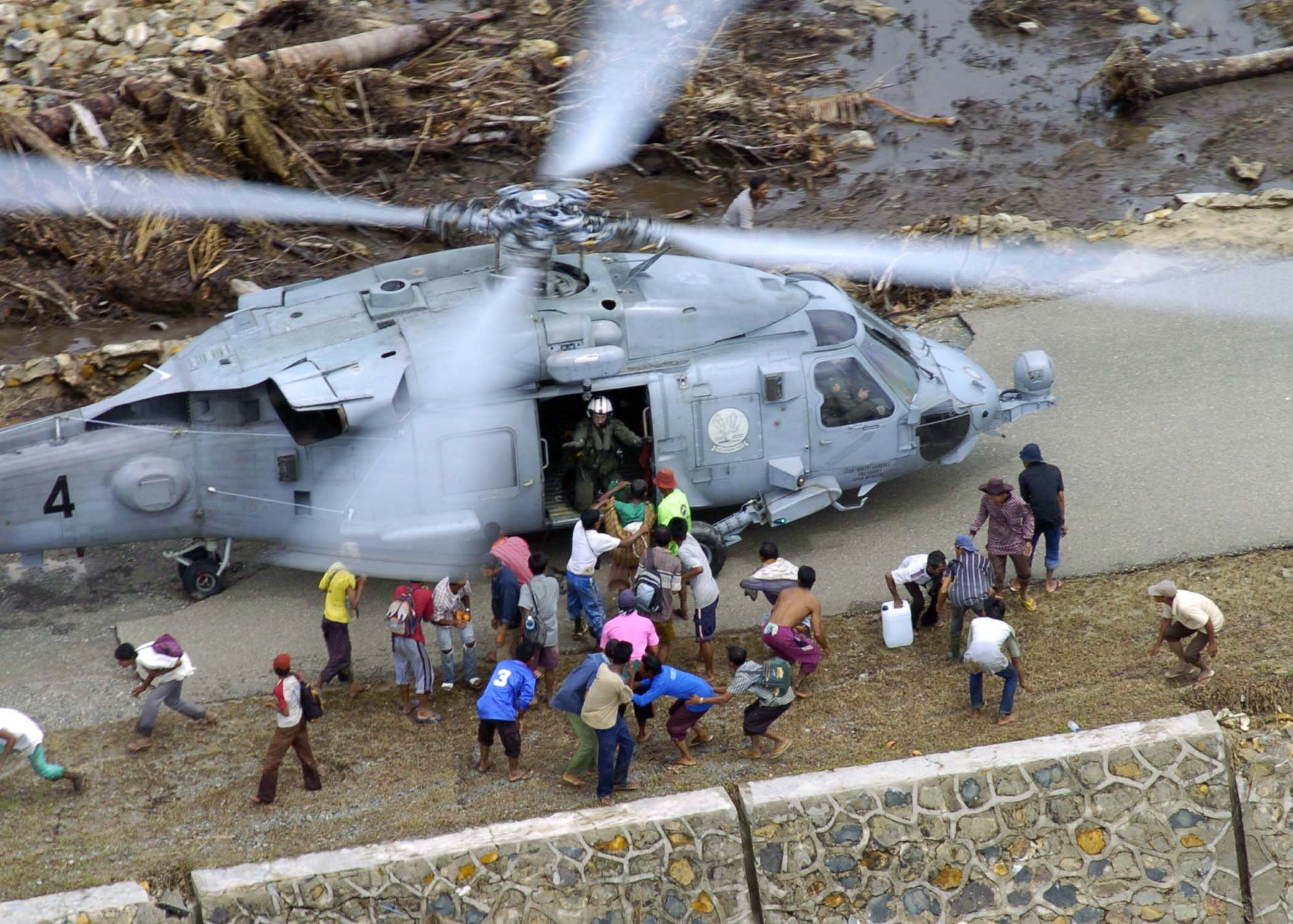 Jalan, Sumatra, Indonesia (Jan. 8, 2005) – Indonesians rush to an HH-60H Seahawk helicopter assigned to the “Golden Falcons” of Helicopter Anti-Submarine Squadron Two (HS-2) to receive food and water, as the helicopter lands in Jalan, Sumatra, Indonesia. Helicopters assigned to Carrier Air Wing Two (CVW-2) and Sailors from USS Abraham Lincoln (CVN 72) are supporting Operation Unified Assistance, the humanitarian operation effort in the wake of the Tsunami that struck South East Asia. The Abraham Lincoln Carrier Strike Group is currently operating in the Indian Ocean off the waters of Indonesia and Thailand. U.S. Navy photo by Photographer's mate 2nd Class Philip A. McDaniel (RELEASED)